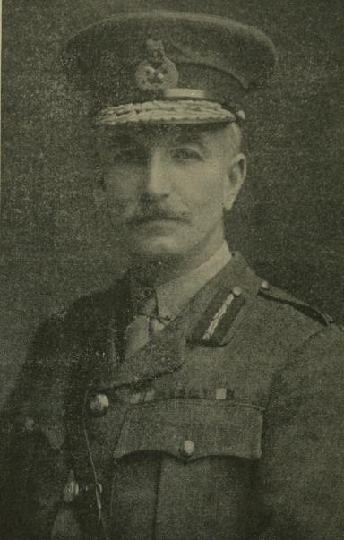 WWI Photograph of Lt-General Sir William Raine Marshall.